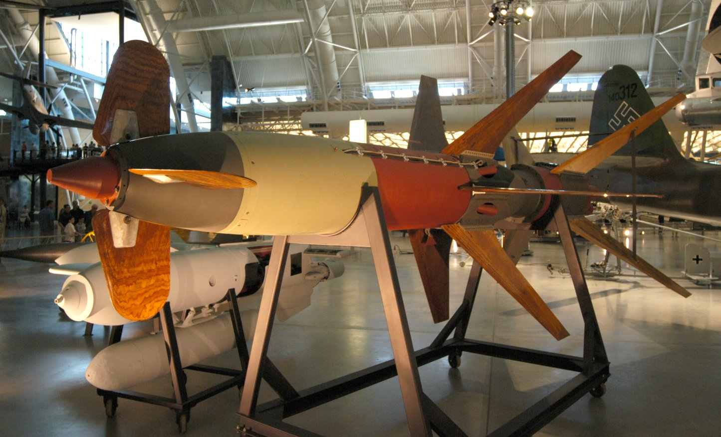 Rheintochter R1 missile on display at the U.S National Air and Space Museum, Steven F. Udvar-Hazy Center. The stats on the sign next to it were: Length: 5.6 m (18 ft) Weight: 1,100 kg (2,425 lb) Weight, warhead: 150 kg (332 lb) Range: 12.1 km (7.5 mi) Thrust: 734,000 N (165,000 lb) booster 39,144 N (8,800 lb) sustainer Propellant: solid dyglycol rocket motor Manufactuerer: Rheinmetall-Borsig